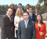 Equipo de informativos primera etapa Televisión Canaria